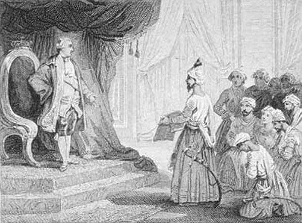 Voyer after Charles Emile Wattier (French, 1800-1868): Louis XVI Receives the Ambassadors of Tipu Sultan in 1788, 19th century (before 1863), line engraving, for a illustration 15 x 20 cm. During the captivity of Mangalorean Catholics at Seringapatam, Tipu's embassy visited the court of the French King Louis XVI in 1788. Pope Clement XIV's representative conveyed the appeal to the embassy to allow the priests in Seringapatam.